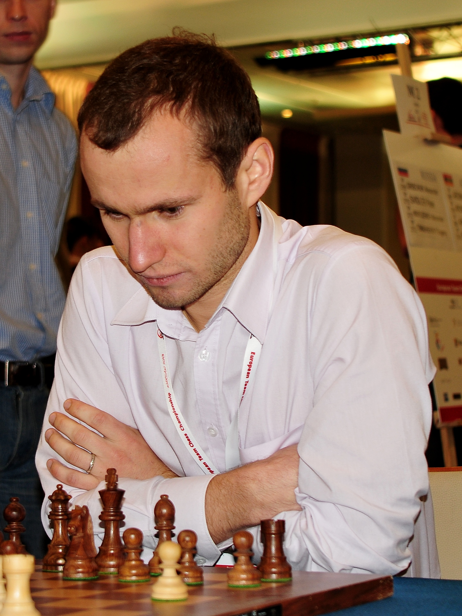 GM Sergei Zhigalko, European Chess Team Championship Warsaw 2013